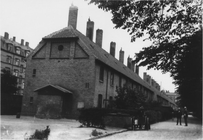 Classen's row houses (De Classenske Boliger) in Frederiksberg. Demolished.